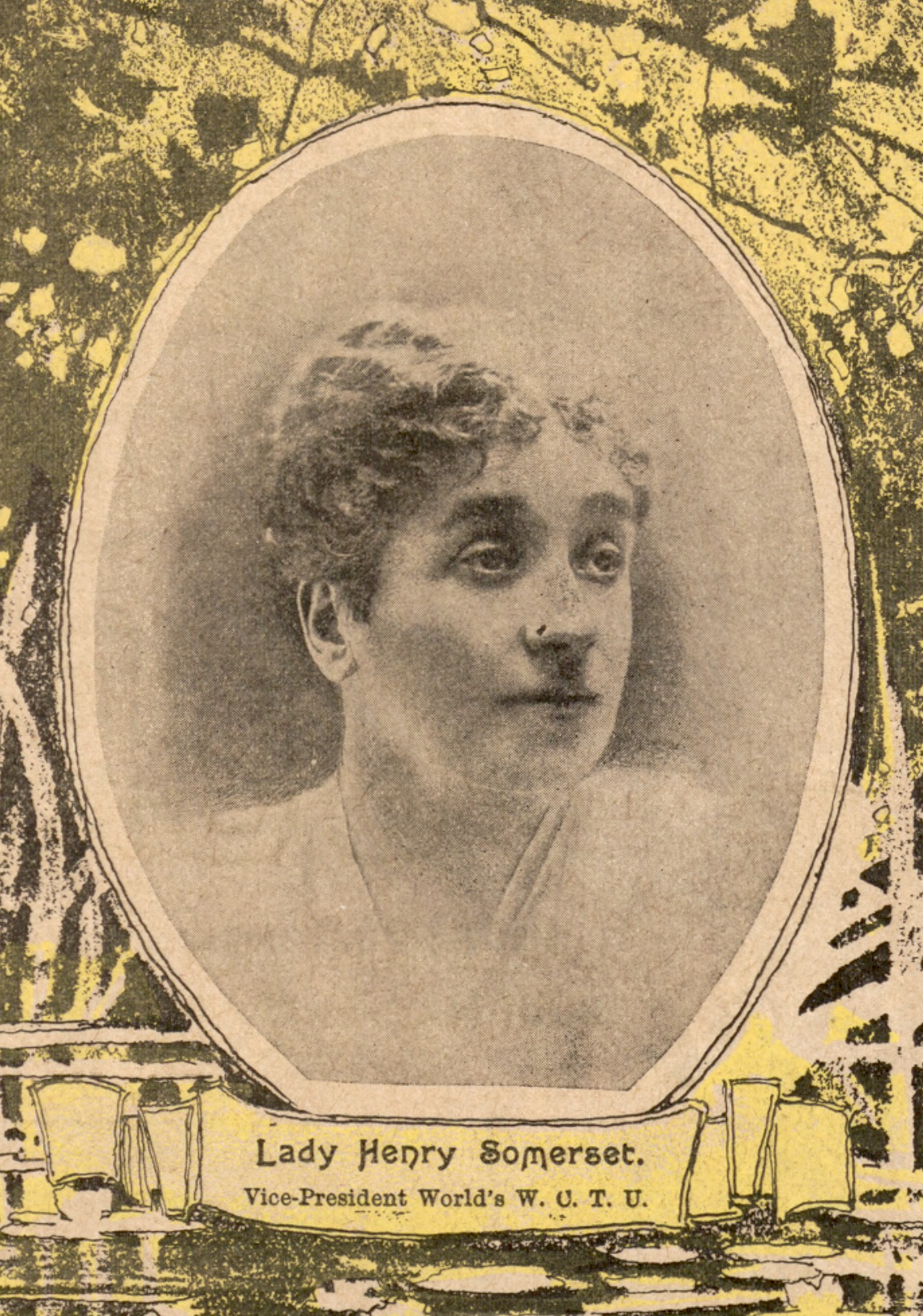 Lady Henry Somerset